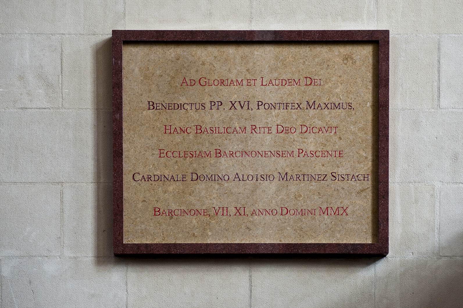 Plaque commemorating the consecration of the Temple of the Sagrada Familia as a minor basilica by Pope Benedict XVI